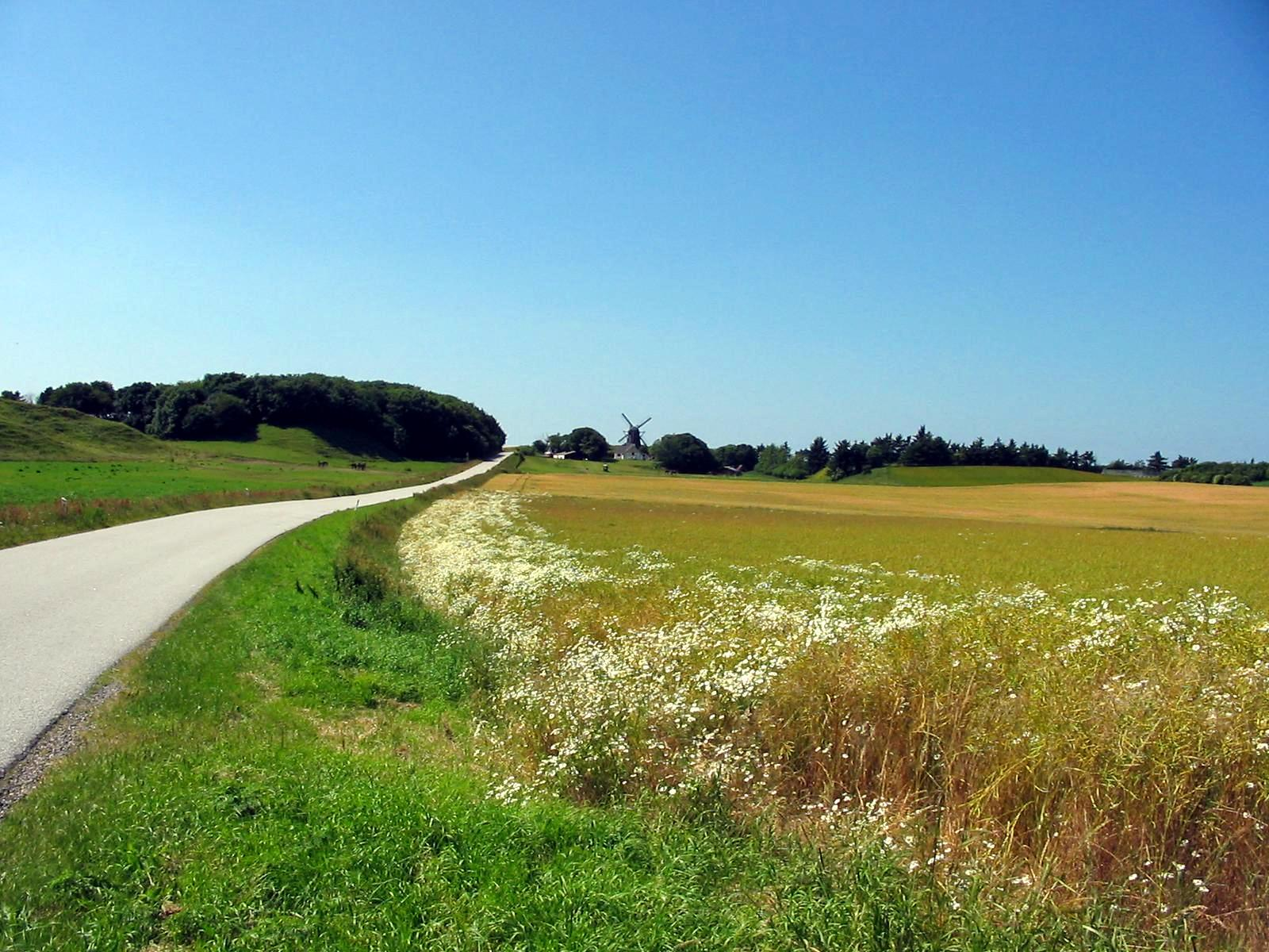 "Vennebjerg Mølle" windmill, Vendsyssel (Northern Jutland, Denmark)